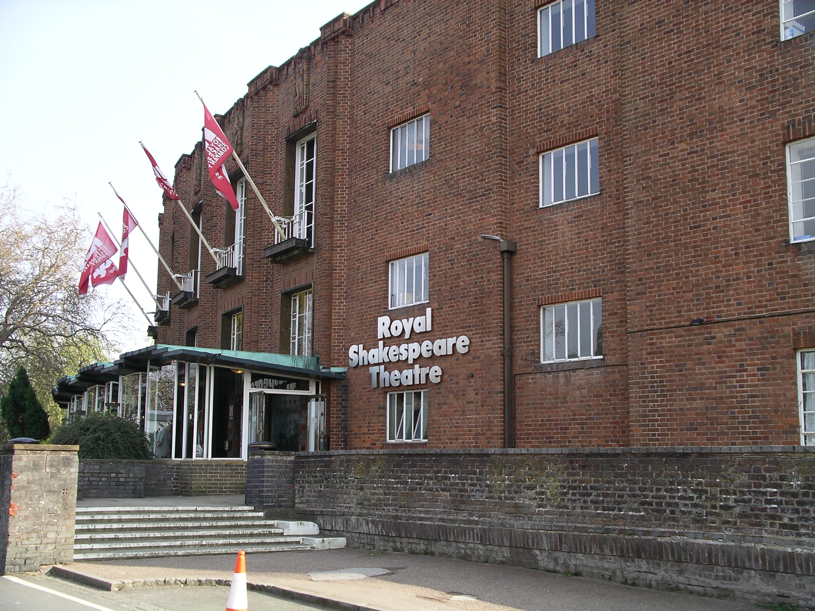 photograph of the Royal Shakespeare Theatre, Stratford-on-Avon Warwickshire, England.